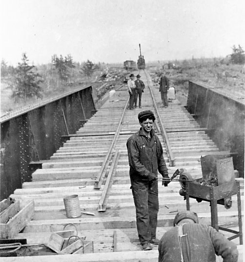 Building a Bridge on the National Transcontinental Railway, ca 1910. (CSTM/CN Collection 84083-9)